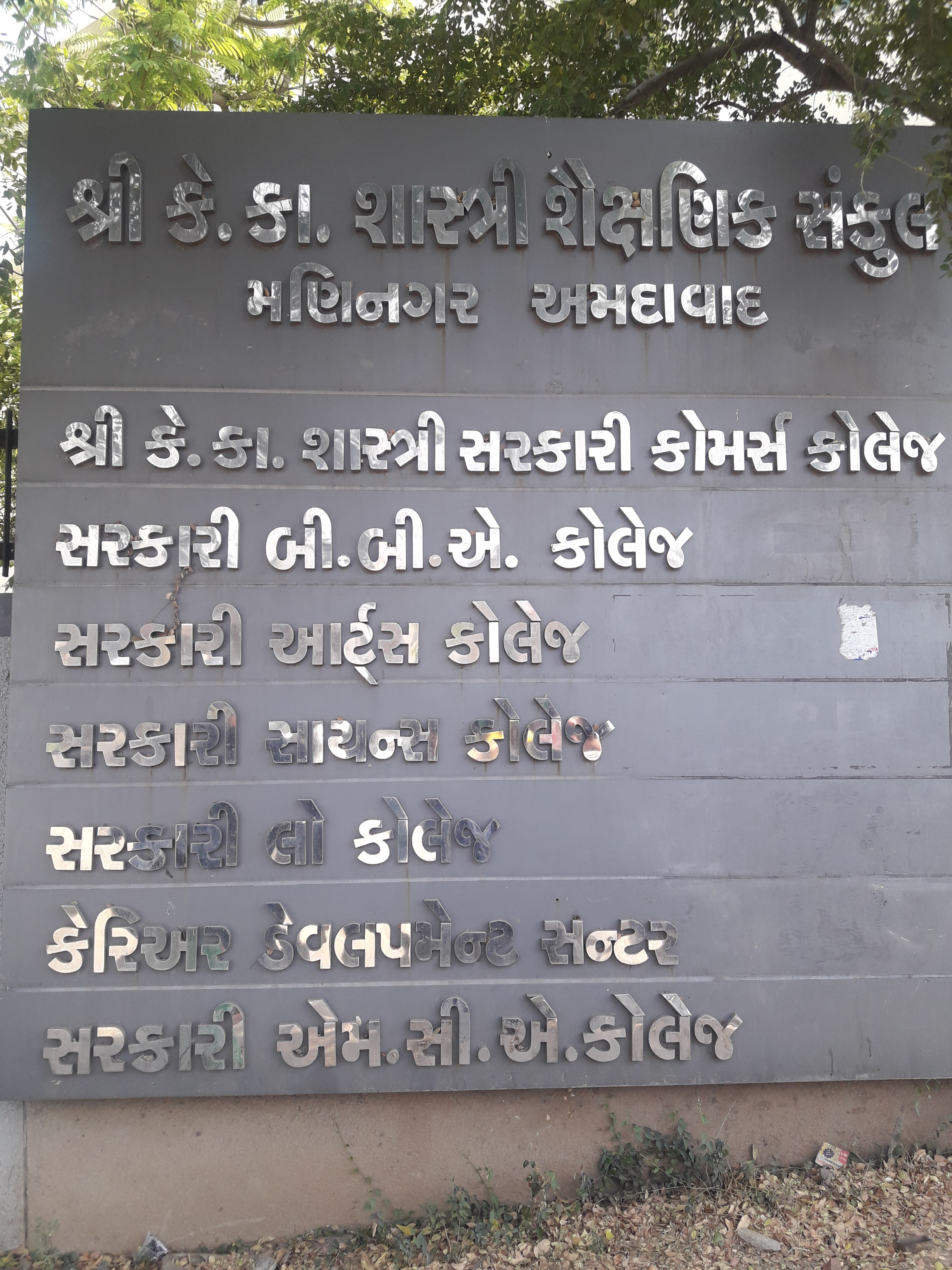 Shri K. K. Shastri Educational Campus, located near Khokhara Circle in Maninagar, Ahmedabad, India.